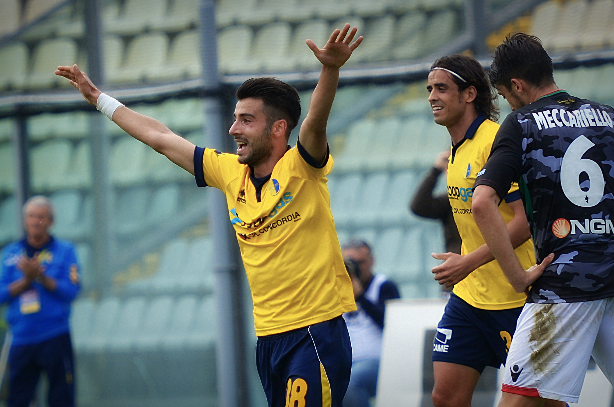 Luca Garritano with the shirt of Modena Football Team